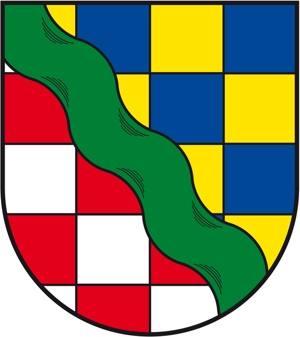 Coat of arms of Dillendorf